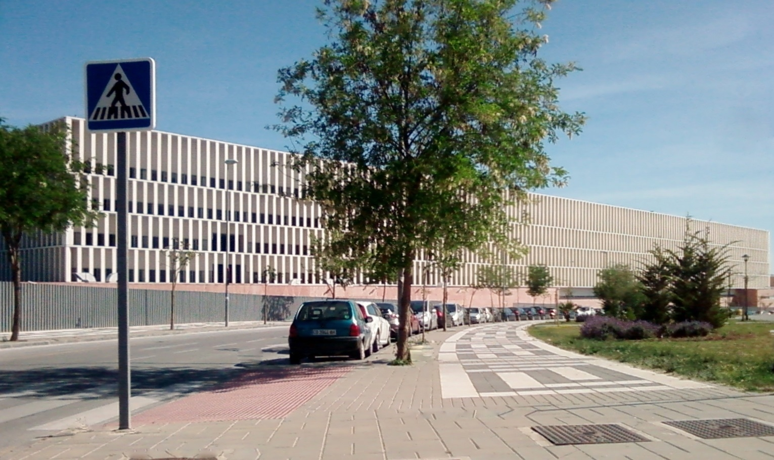 Court building in Málaga, Spain